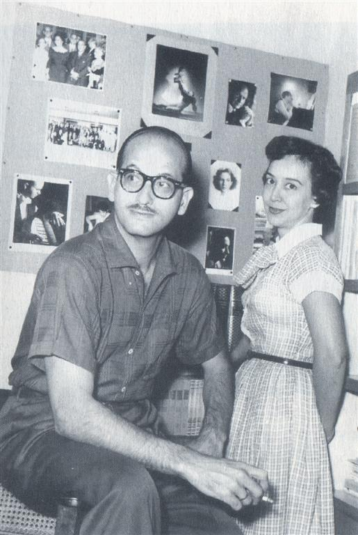 Harold Gramatges with Manila